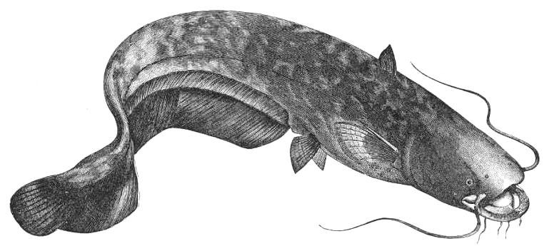 Originally scanned by The University of Washington Libraries ( Background cleared up